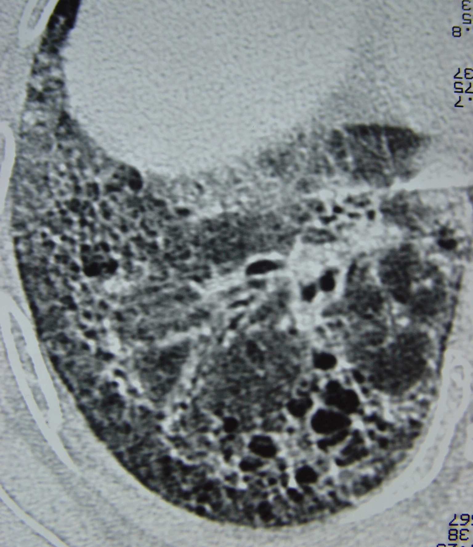 Systemic sclerosis HRCT image. Provided as-is. Please feel free to categorise, add description, crop.